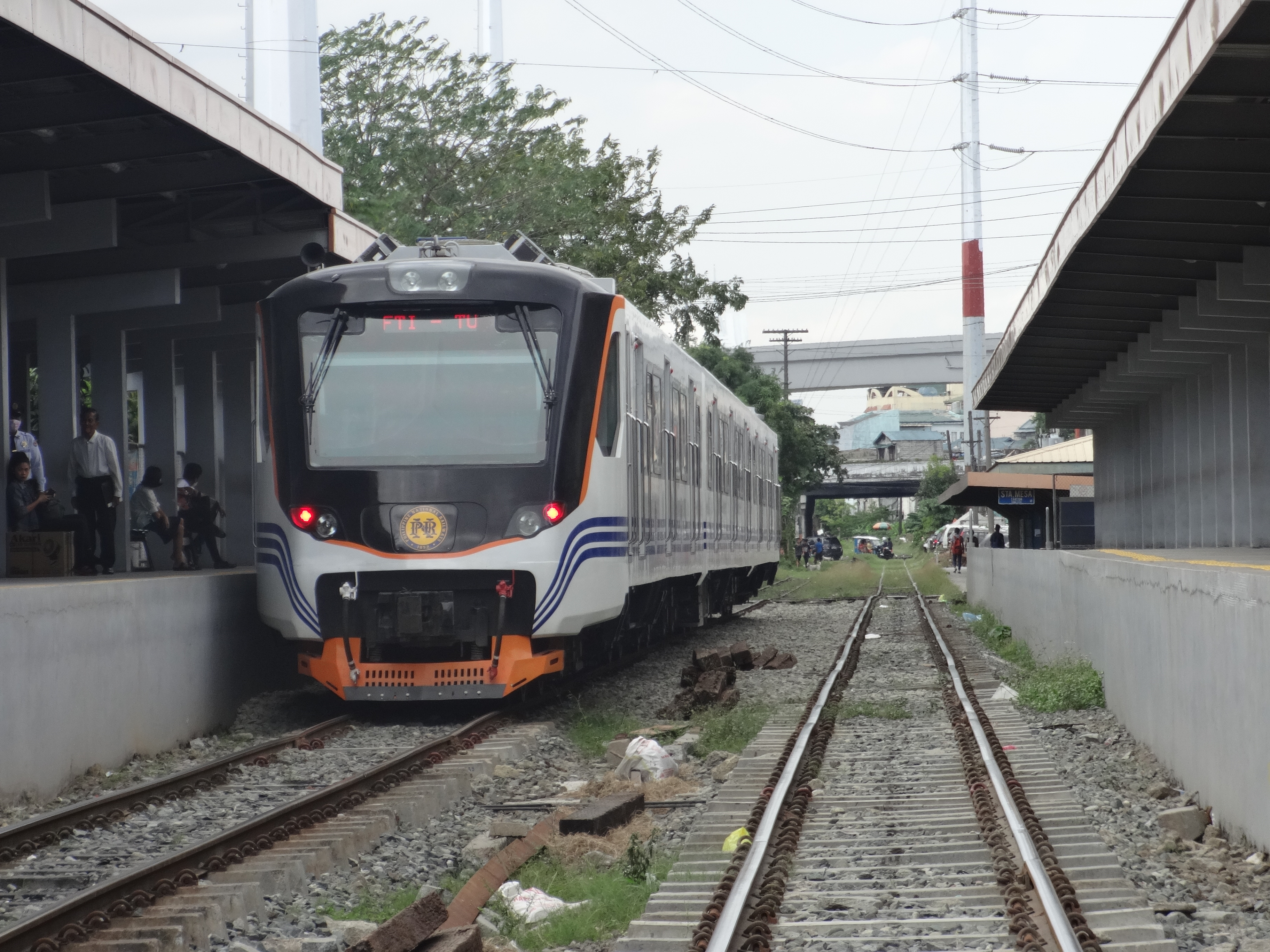 A new Philippine National Railways INKA train at Santa Mesa Station, Manila